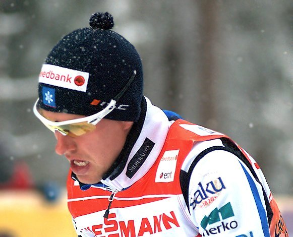 Aivar Rehemaa at the Tour de Ski 2010 in Oberhof